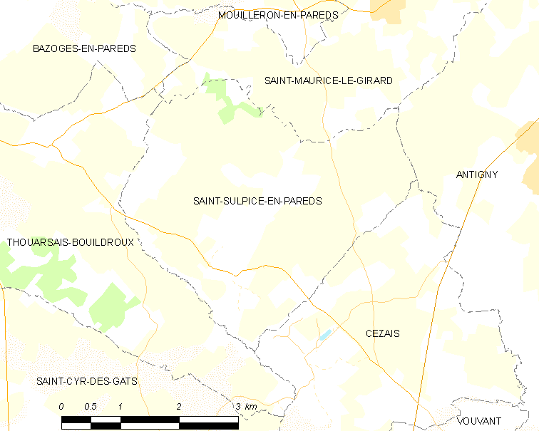 Map of French municipality Saint-Sulpice-en-Pareds